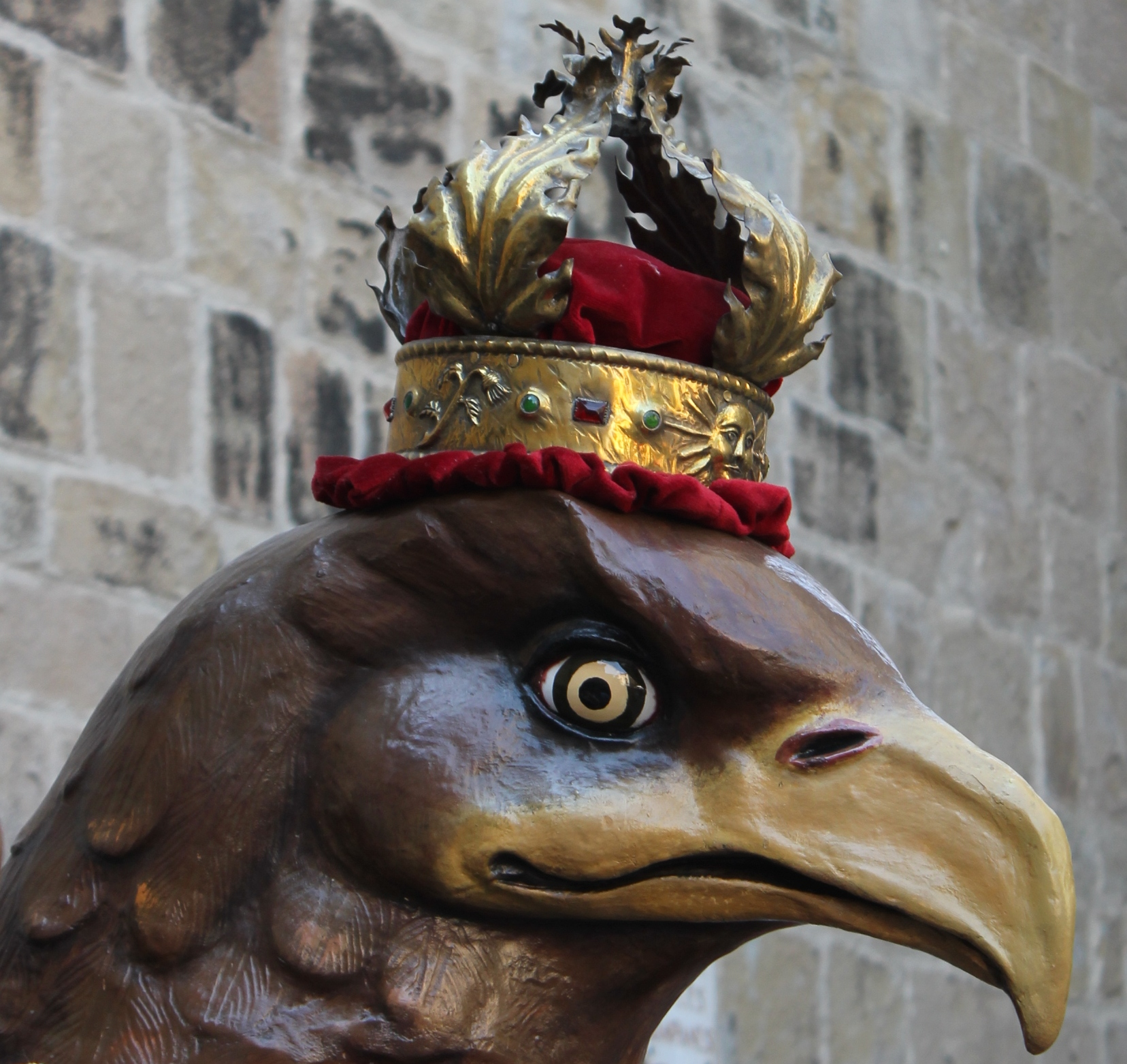 Àliga de Solsona. Festa Major 2015. In front of the Cathedral of Solsona